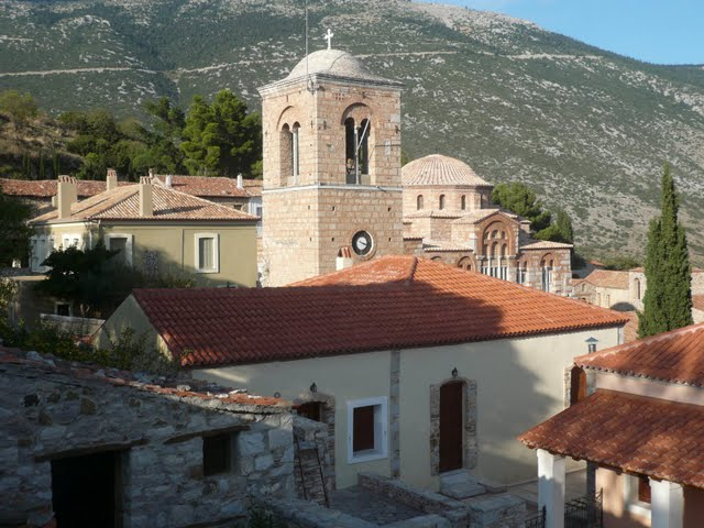 Monastery of Hosios Loukas in Boetia, Greece